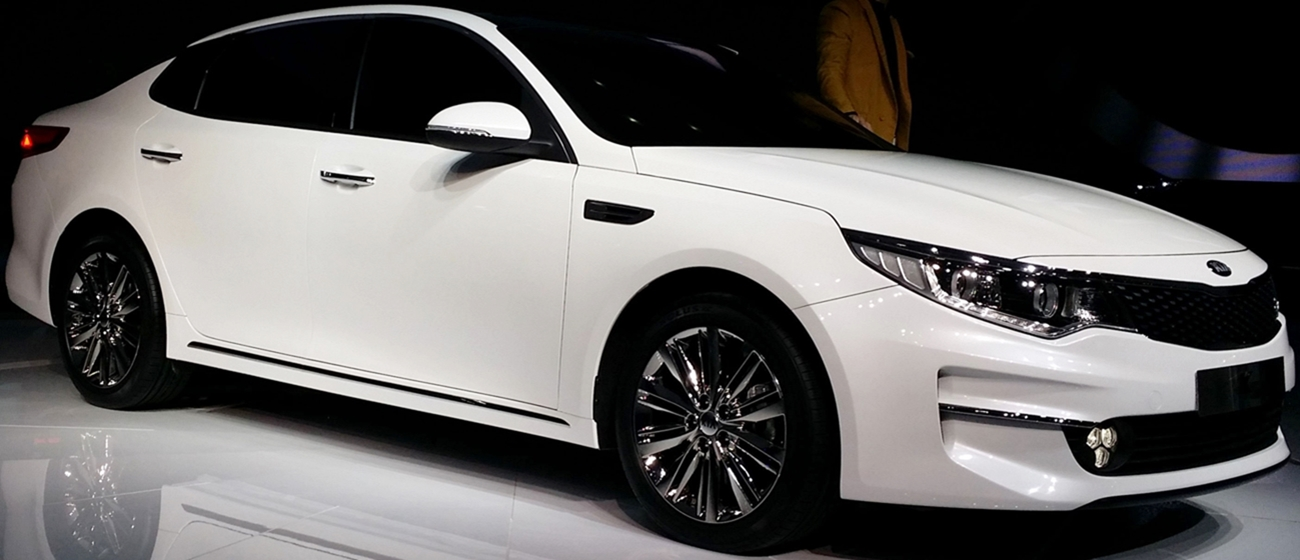 Kia K5